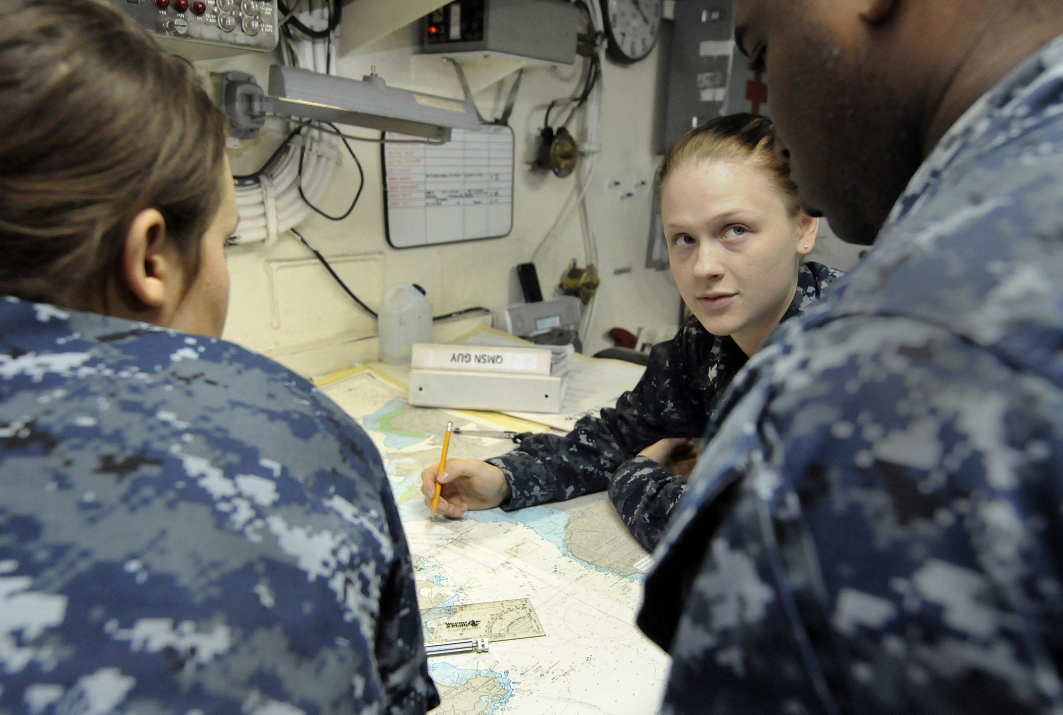 PACIFIC OCEAN (April 5, 2011) Quartermaster 3rd Class Valerie Slaughter, center, trains Quartermaster Seaman Tailor Guy and Quartermaster Seaman Jarrin Davis on chart reading in the chart room aboard the amphibious transport dock ship USS Tortuga (LSD 46). Tortuga is operating in the U.S. 7th Fleet area of responsibility supporting Operation Tomodachi. (U.S. Navy photo by Mass Communication Specialist 1st Class Josh Huebner/Released)